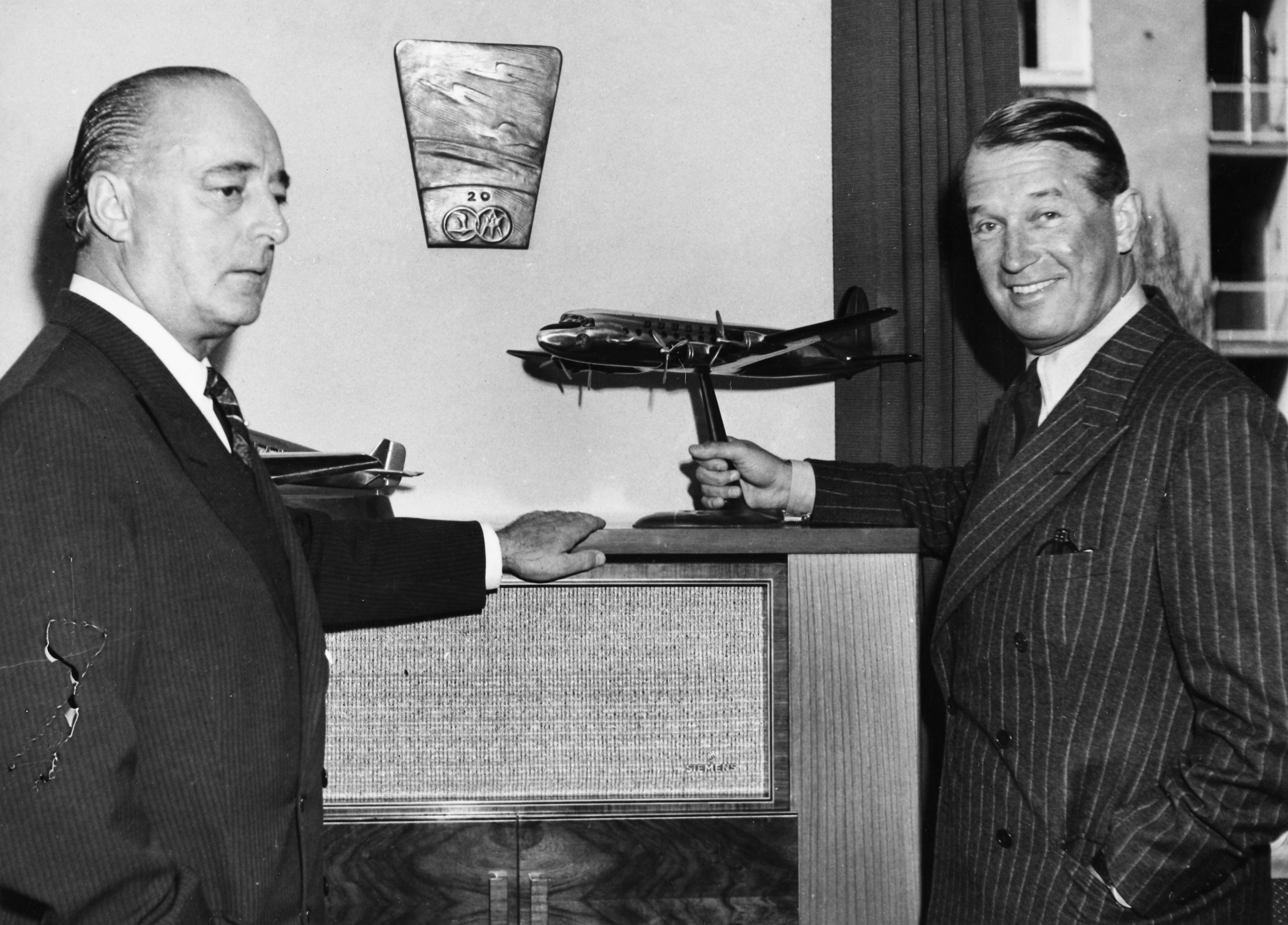 Carl Florman, President ABA and Maurice Chevalier, singer France 1940s.